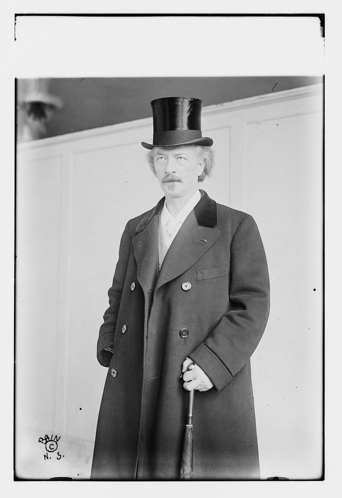 Ignacy Jan Paderewski at the April 1916 Flower Show in New York City